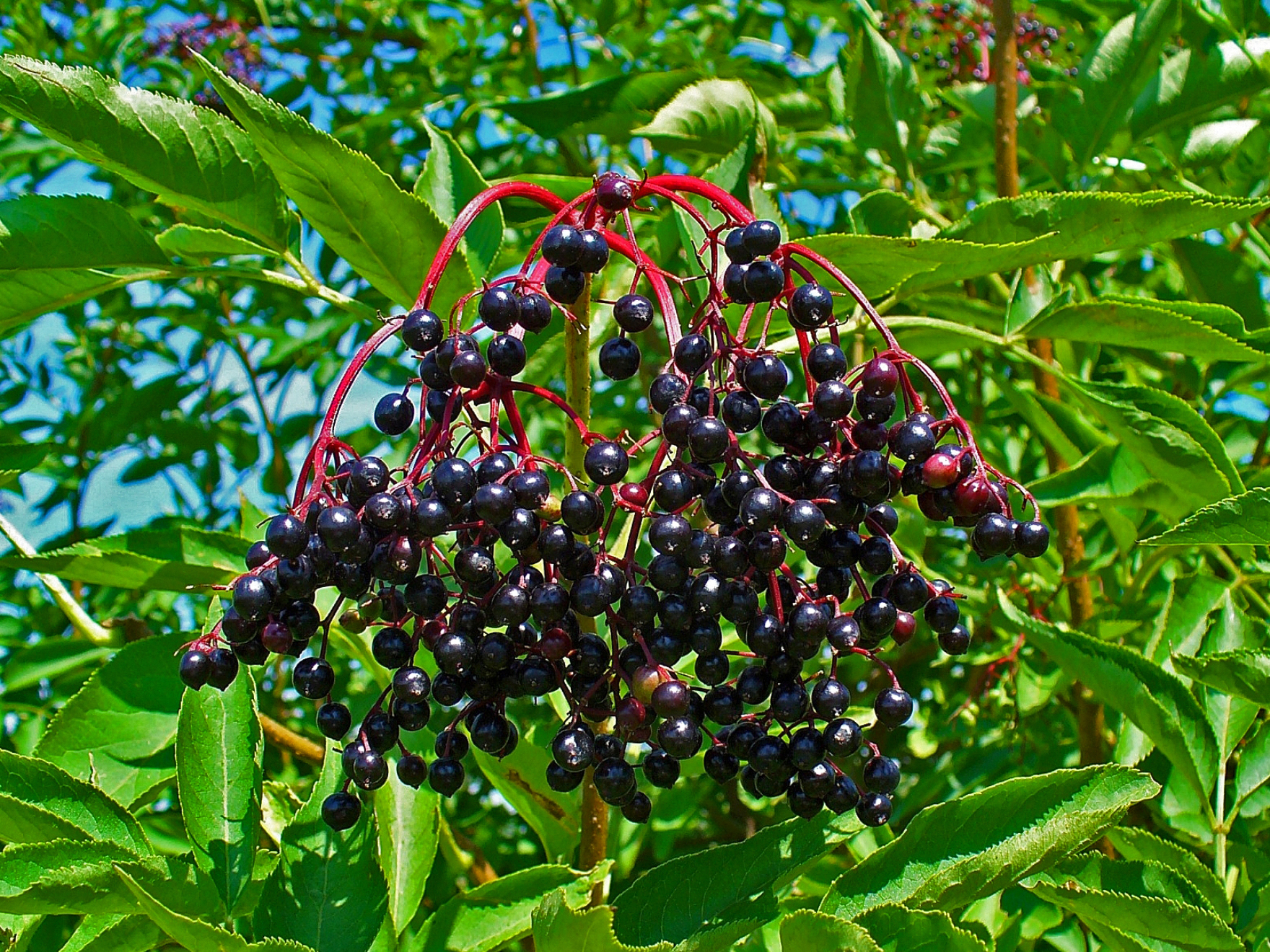 Sambucus nigra, Adoxaceae, Elder, Elderberry, Black Elder, European Elder, European Elderberry, European Black Elderberry, Common Elder, Elder Bush, infrutescence. Karlsruhe, Germany.